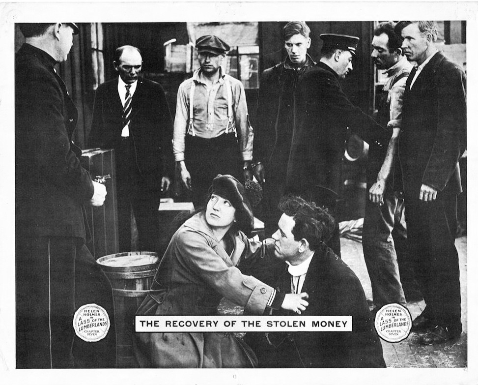 Lobby card for the American serial film A Lass of the Lumberlands (1916).